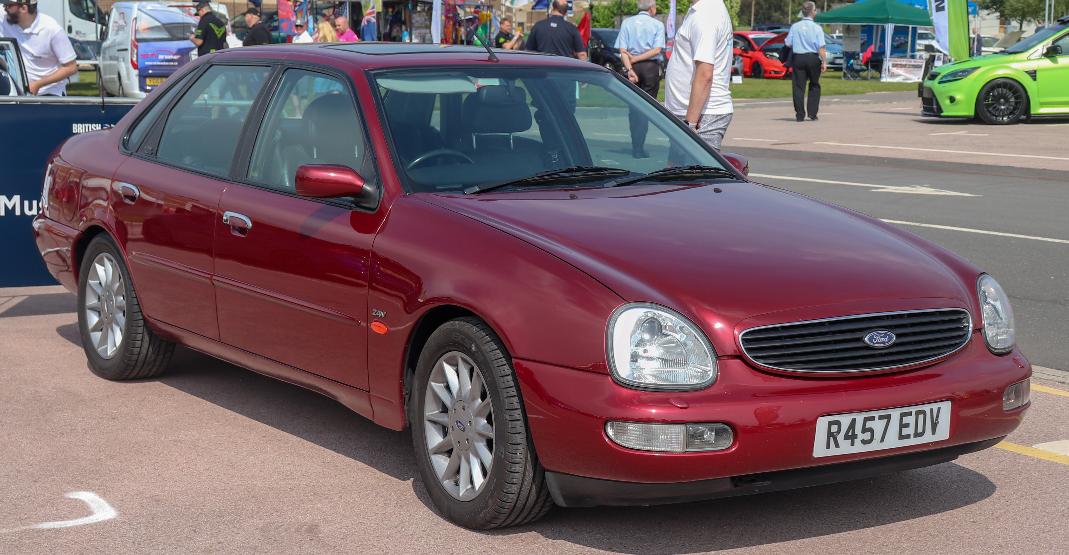 1998 Ford Scorpio Ultima 24V Automatic 3.0 Taken at the Ford Nationals 2019, British Motor Museum, Gaydon